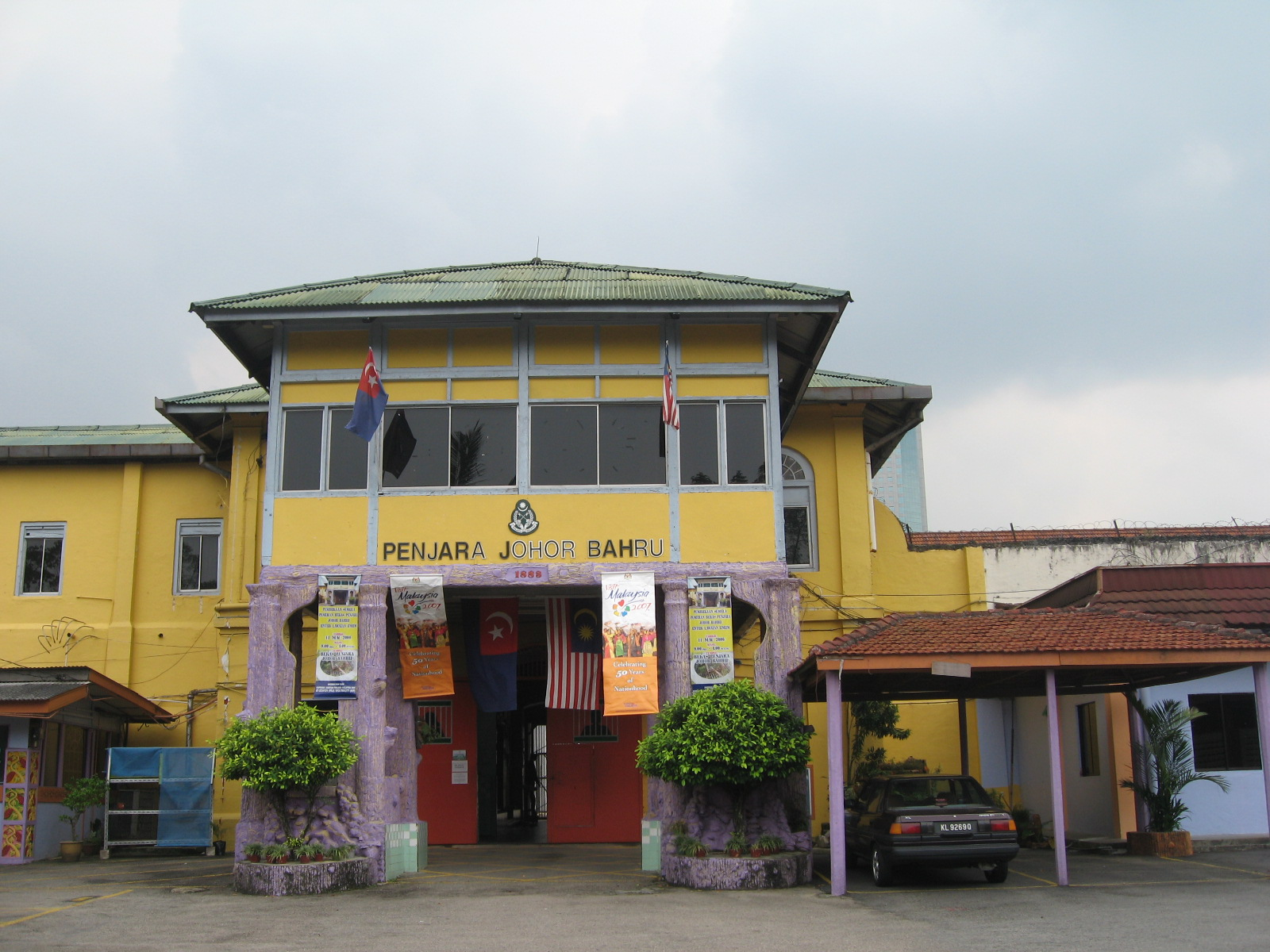 JB Prison (Penjara Johor Bahru).